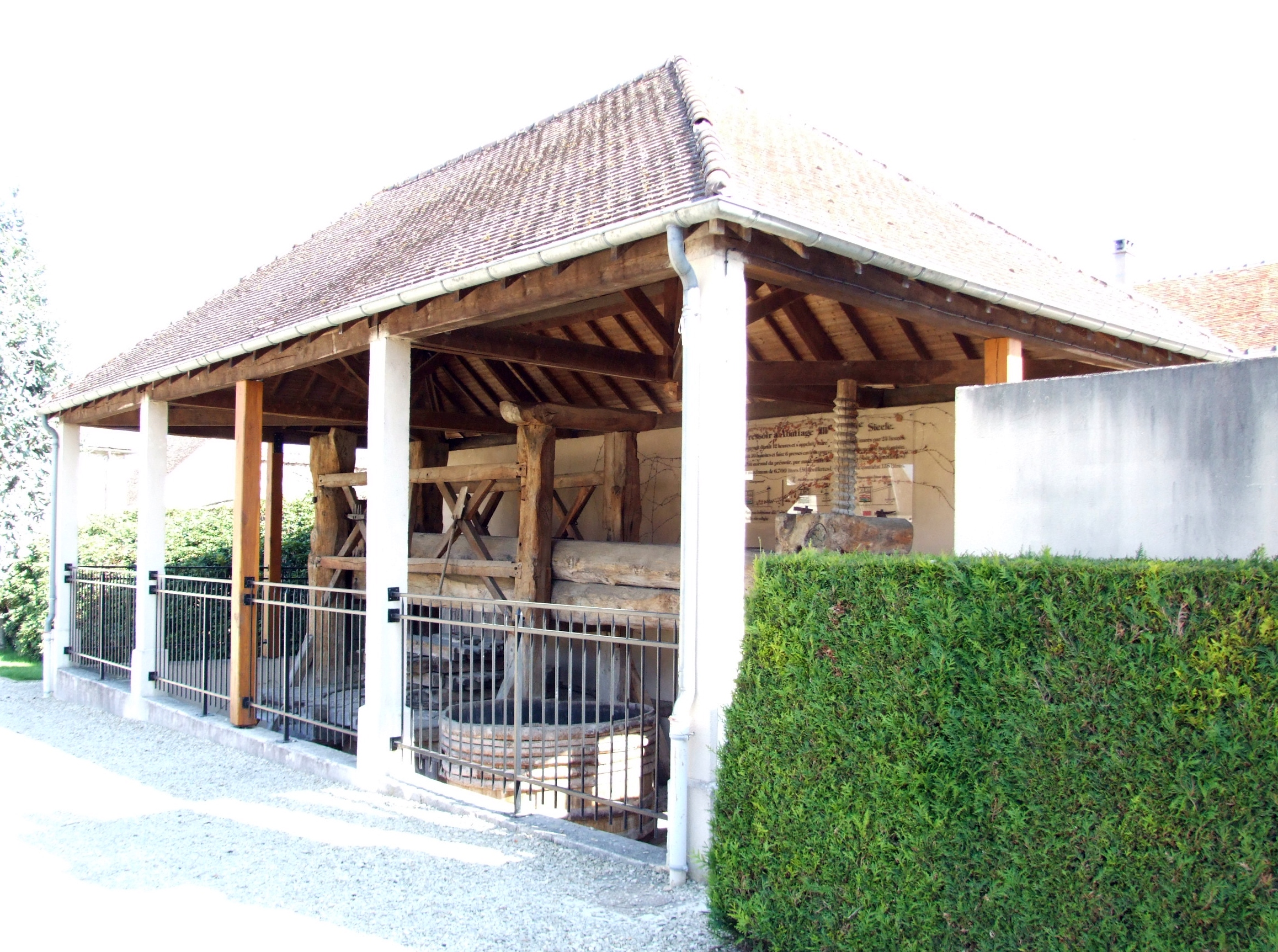 Wine presse, Chablis, Burgundy, FRANCE